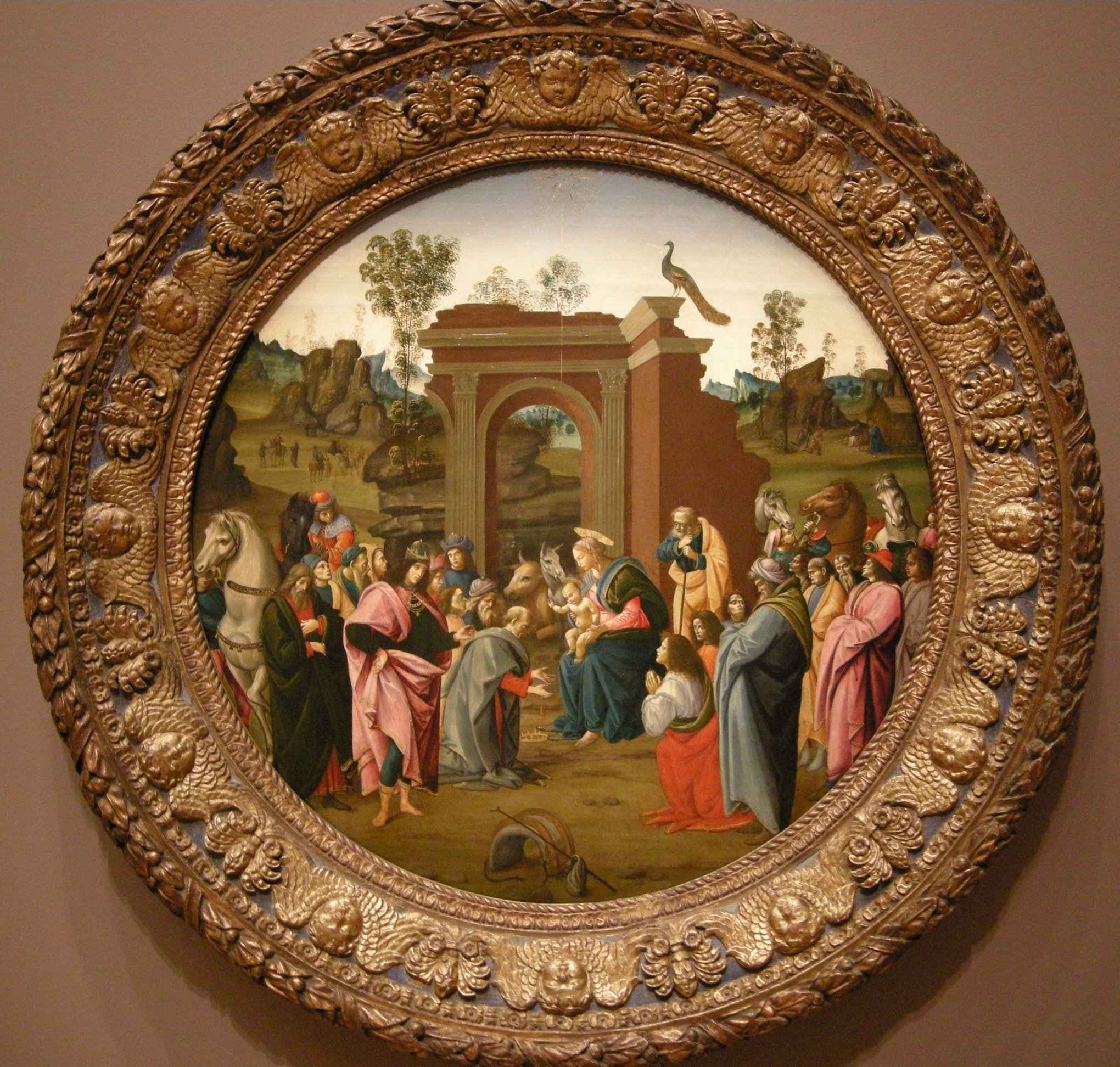 Adoration of the Magi.